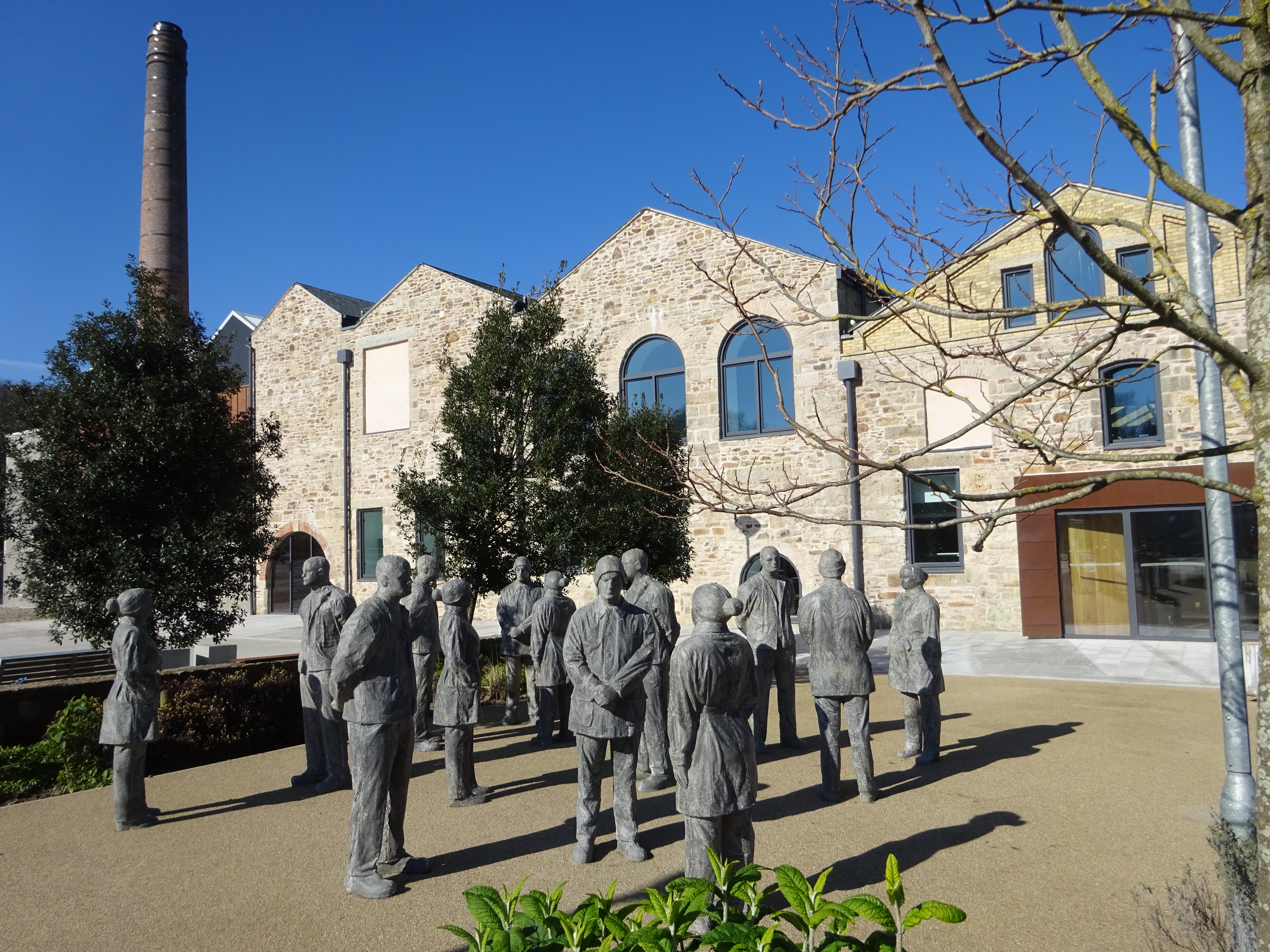 Kresen Kernow, Cornwall's new archive centre. The building used to be the brewhouse for Redruth Brewery and retains some historic features, including the chimney.